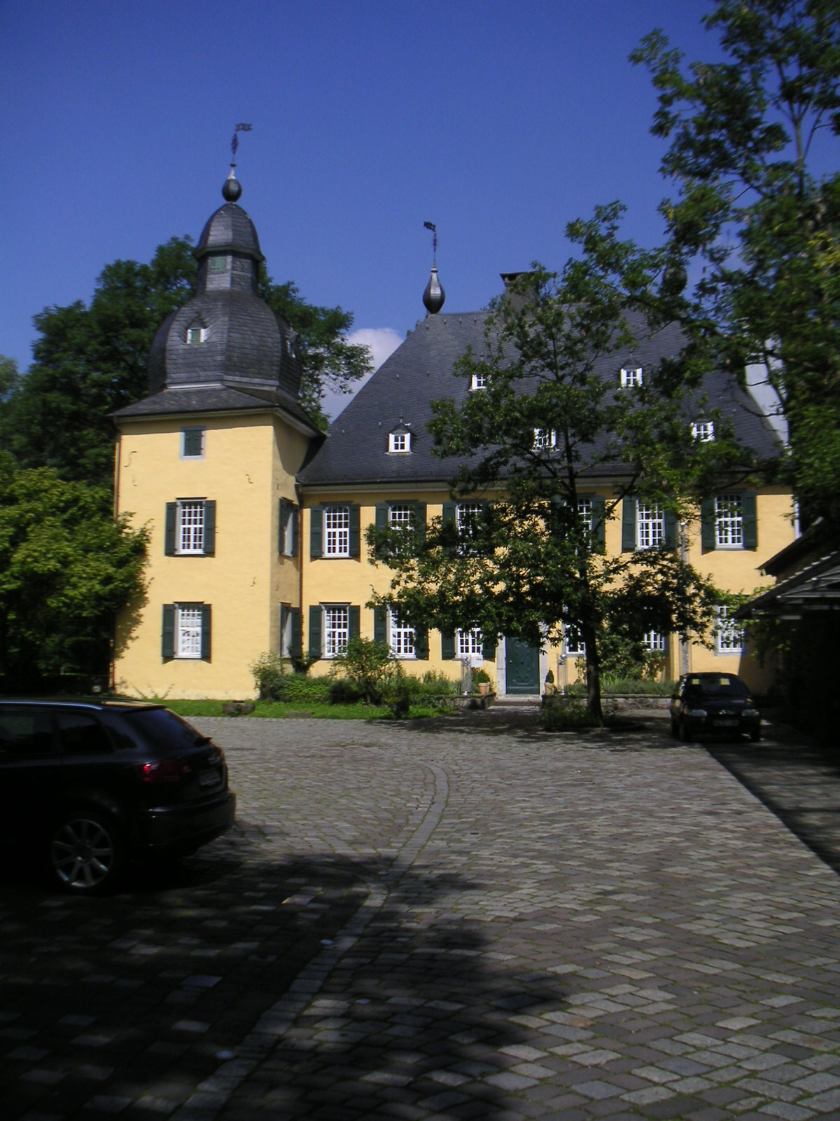 Local Castle and craft centre near Sarah's relatives in Wuppertal